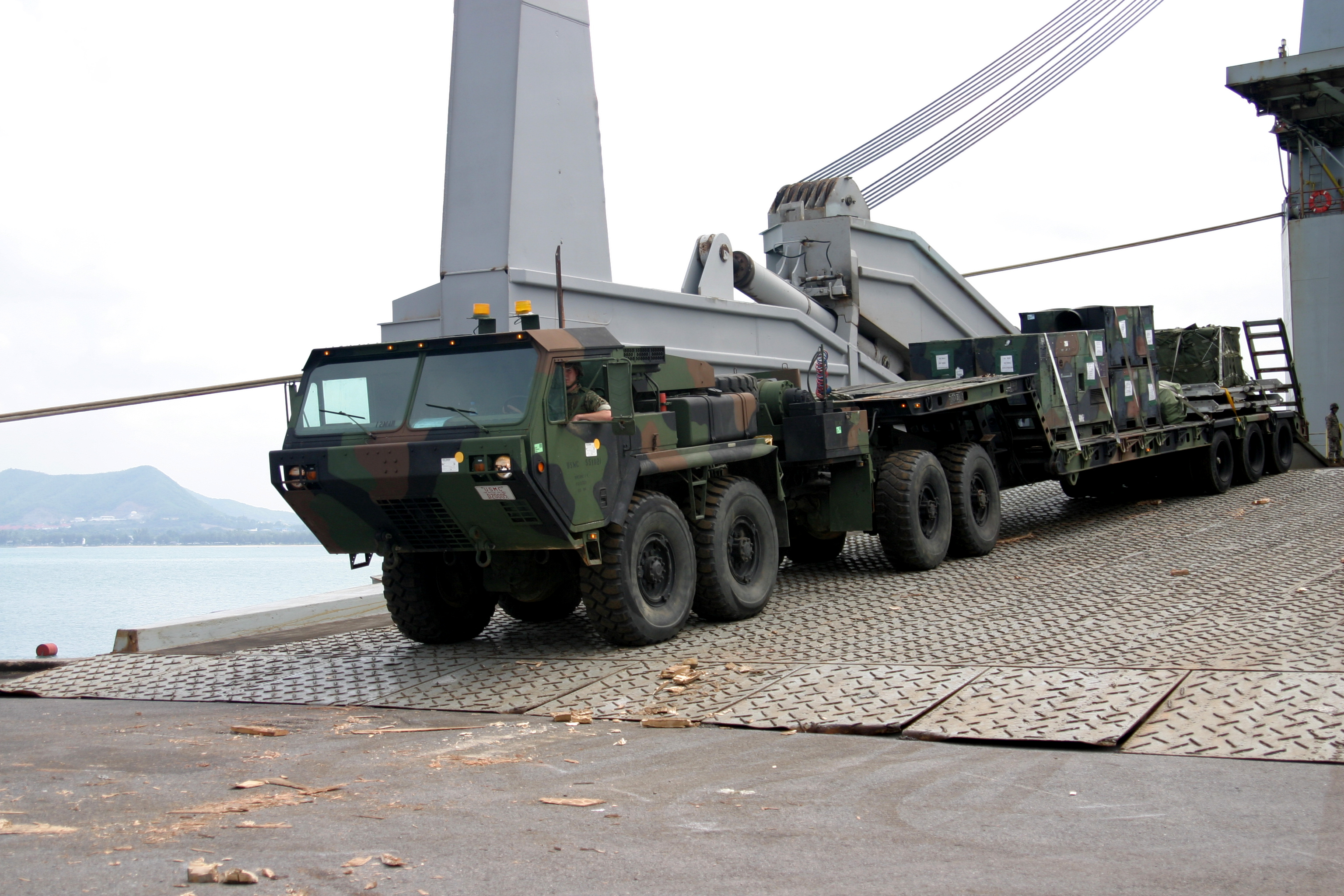 Chuc Samet, Thailand (April 18, 2005) – U.S. Marines assigned to Transport Service Battalion arrive at Chuc Samet port in support of the debarkation of the Military Sealift Command (MSC) Ready Reserve Force roll-on/roll-off ship MV Cape Horn (T-AKR 5068), which housed the military tactical vehicles for the 1st Marine Aircraft Wing, 12th Marines, and Combat Logistics Regiment 7 for exercise Cobra Gold. Cobra Gold is an annual field training exercise with joint services from the U.S. Marines, Navy, Air Force, Thai Army and Thai Royal Marines. U.S. Navy photo by USMC Lance Cpl. Christopher T. Rojas (RELEASED)